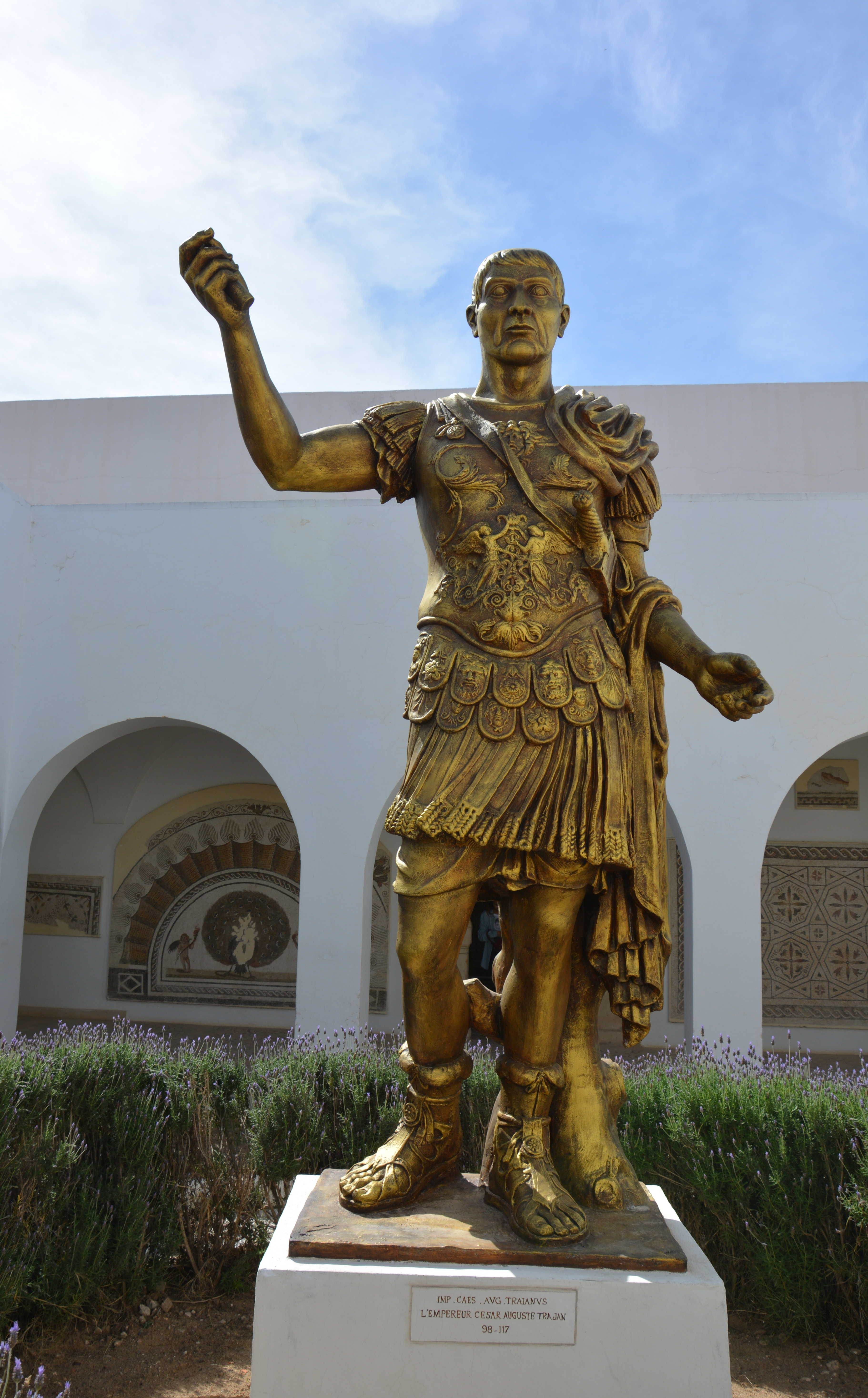 Musée Archéologique d'El Jem